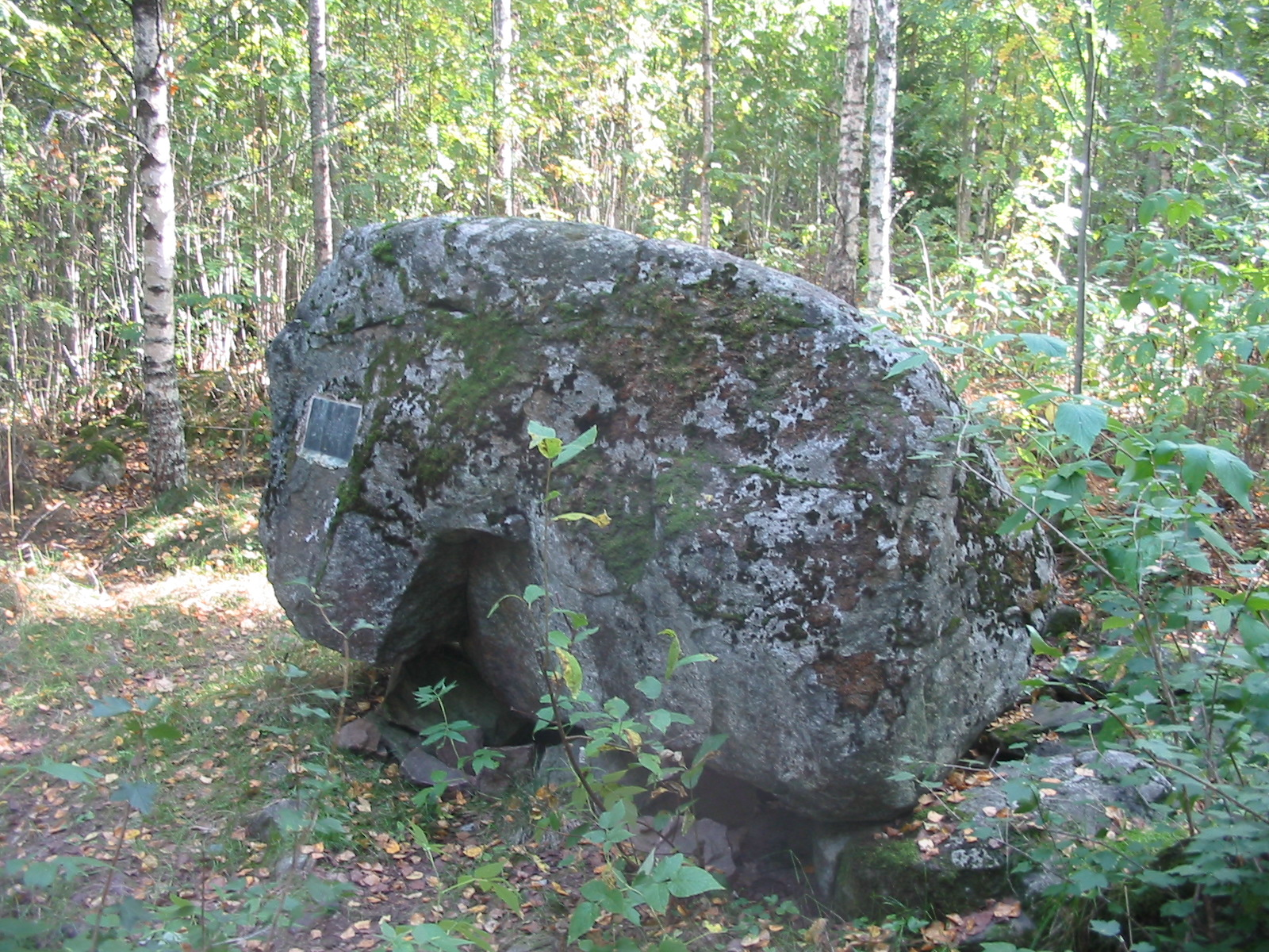 Lallin itkukivi, a stone in Hiirijärvi, Harjavalta, Finland, where the peasant Lalli is told to have wept and regretted after killing bishop Henry, as result the stone is said to be still always wet.